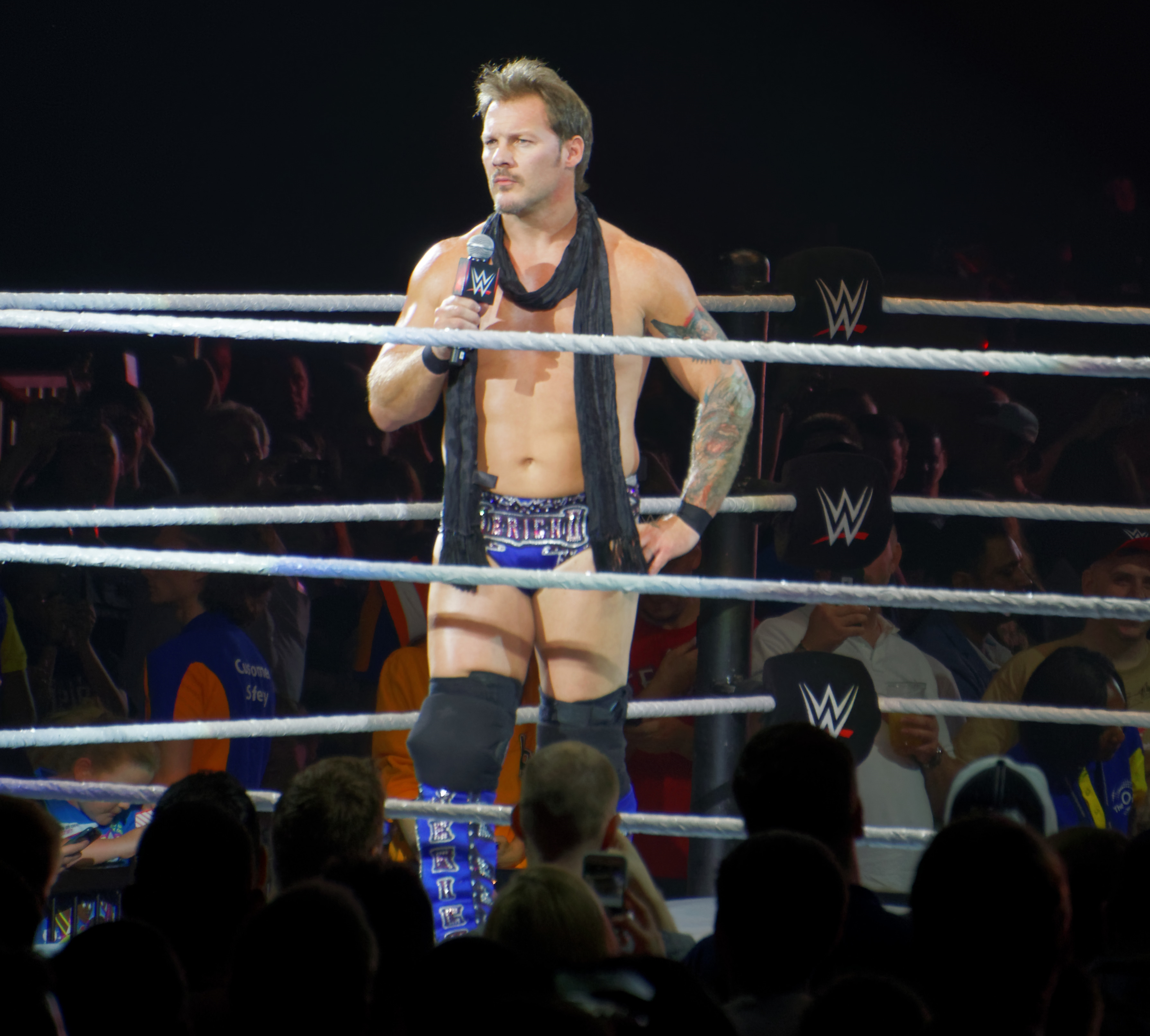 Chris Jericho in September 2016